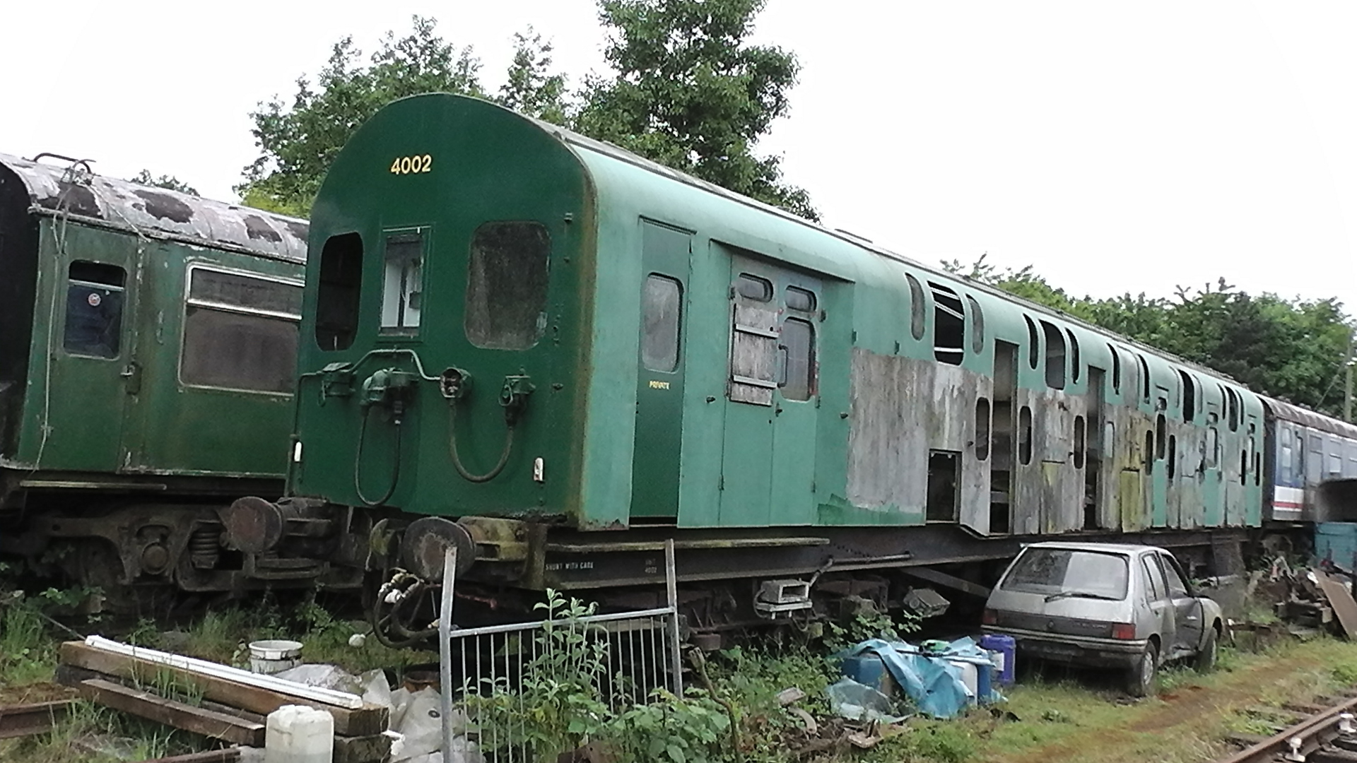 BR Class 4DD DMBC no. 13004 at the Northamptonshire Ironstone Railway Hunsbury Hill Country Park